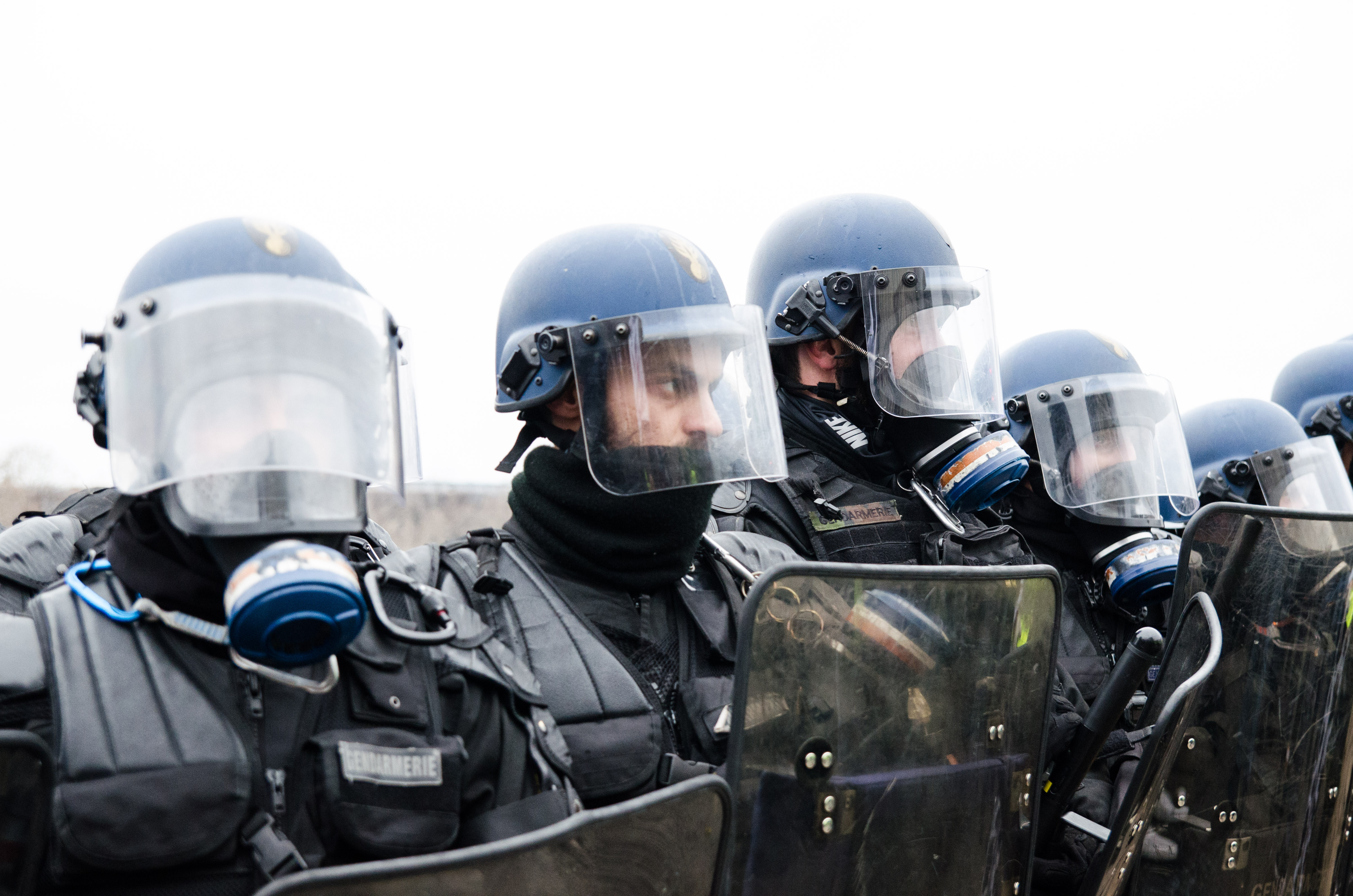 Mouvement des gilets jaunes, Paris, 05 Jan 2019